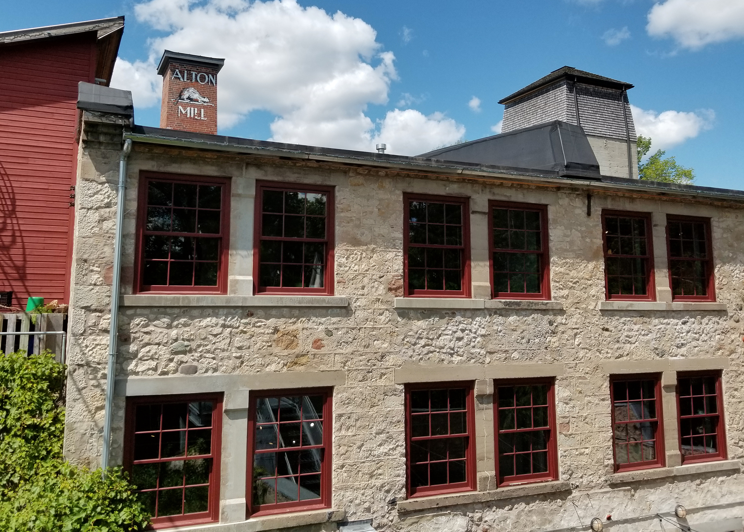 Back of the Alton Mill in 2019, in Caledon, Ontario, now an Arts Centre